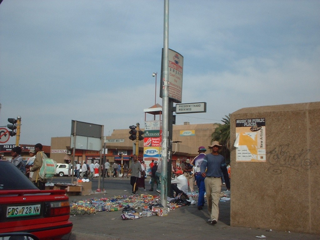 What once was the main street through Rustenburg has now become a decrepit street market by day and dangerous at night...